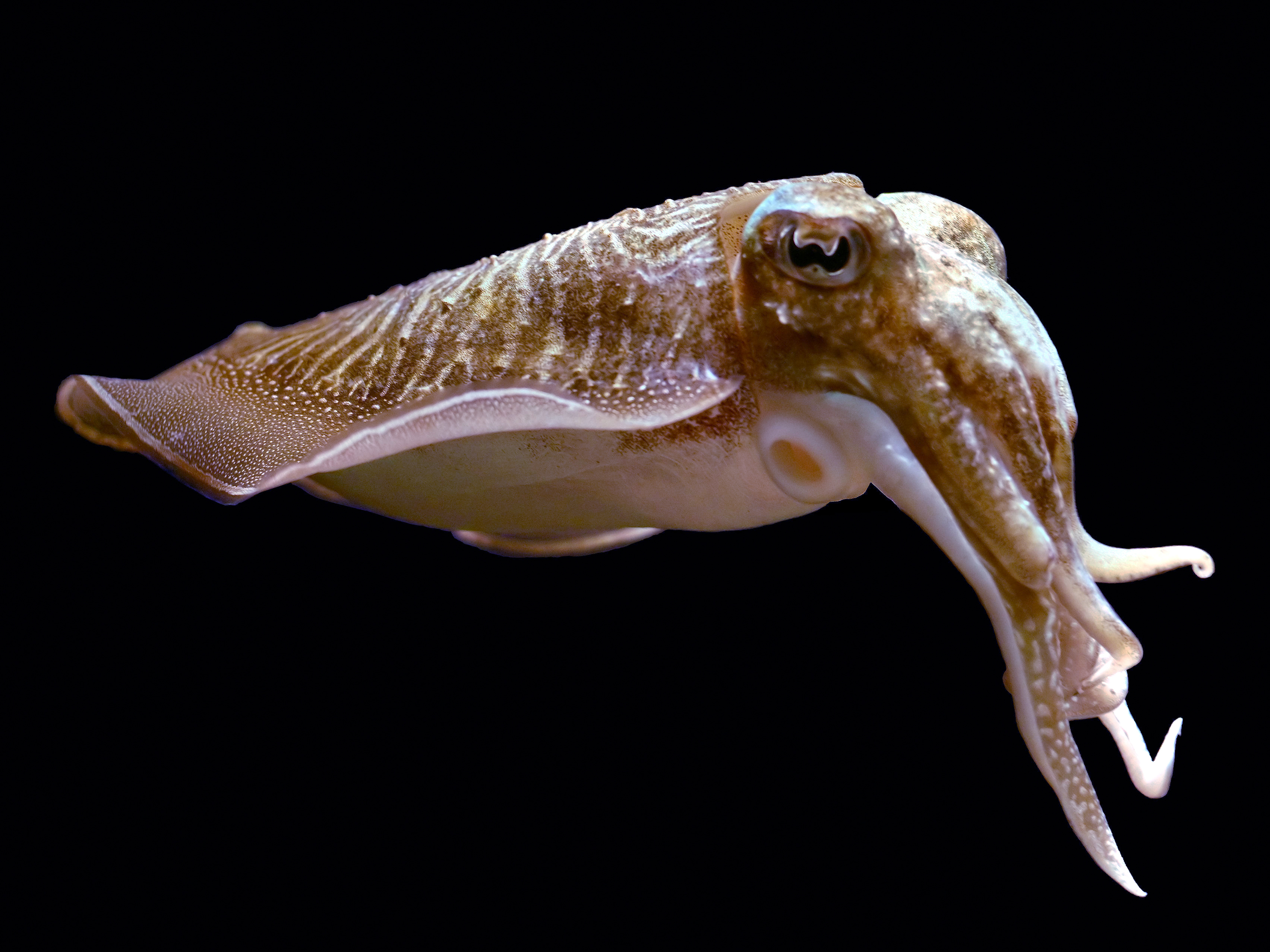 Cuttlefish at Nausicaä Centre National de la Mer, Boulogne-sur-Mer, France